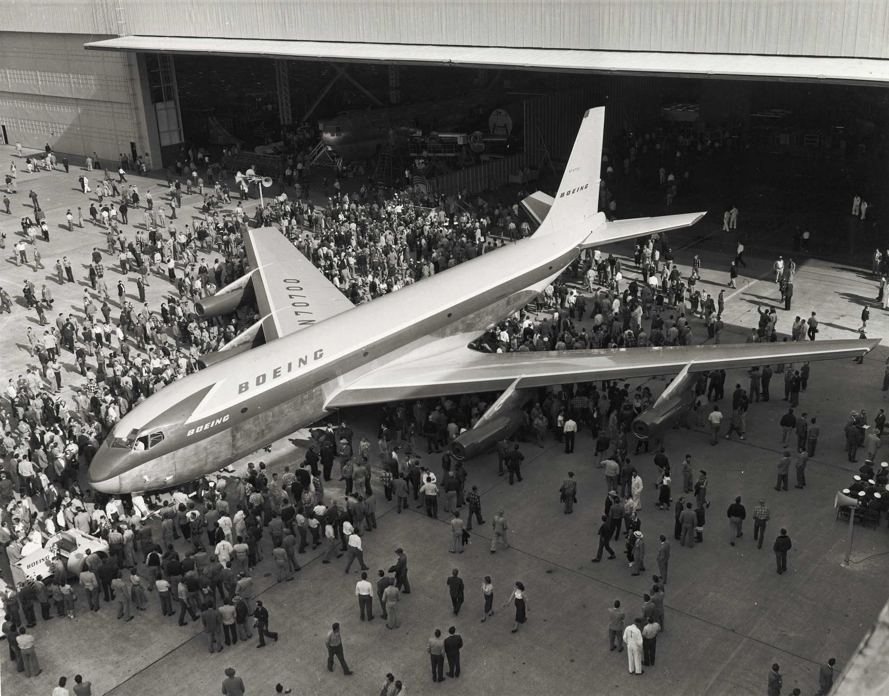 Rollout of Boeing Model 367-80 (707 prototype, r/n N70700) at the Boeing plant, Renton, Washington, May 14, 1954. Jet passenger service began in the United States in the late 1950s with the introduction of Boeing 707 (pictured here) and Douglas DC-8 airliners.